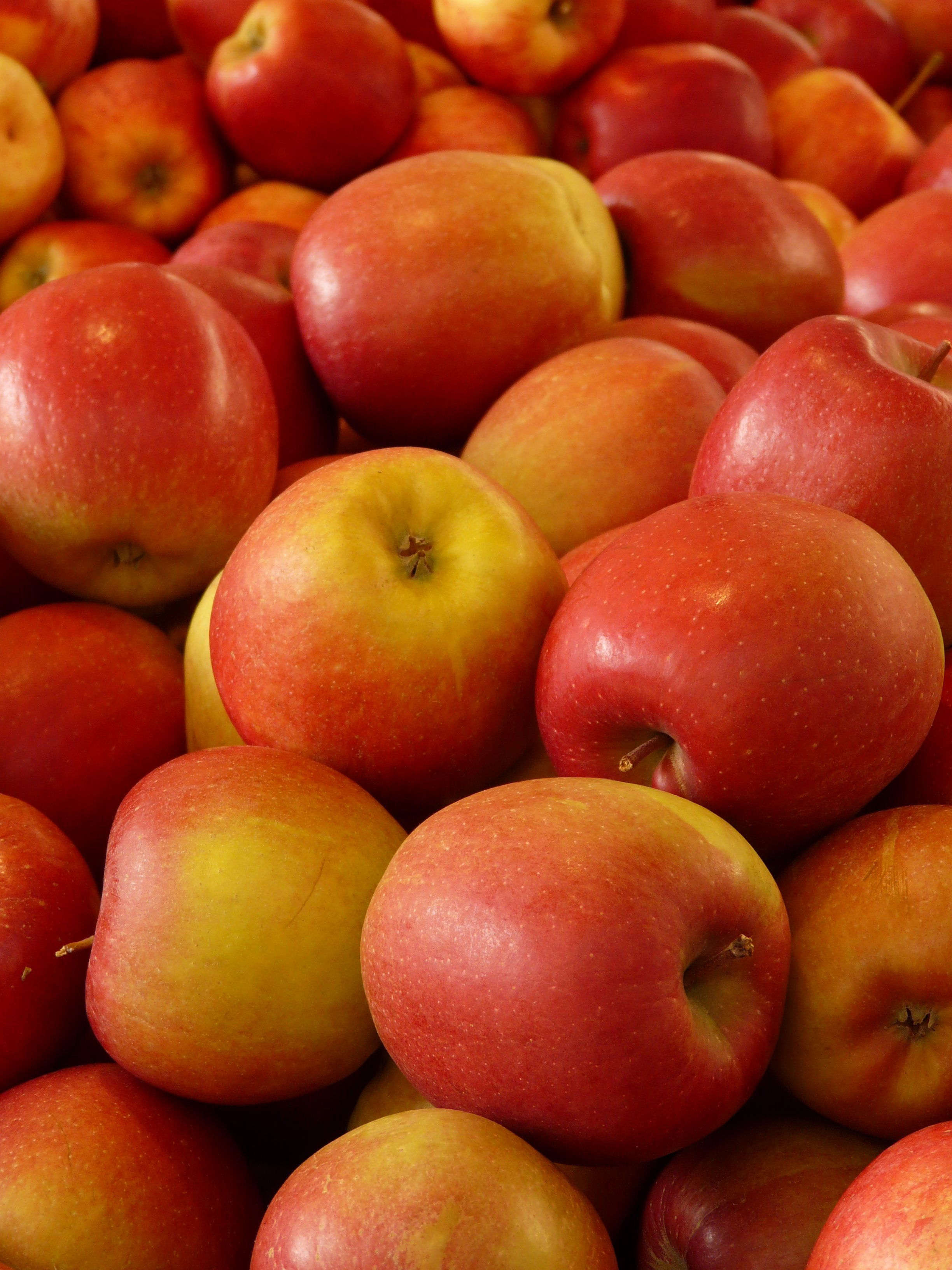 Piràmide d'aliments de l'Empordà